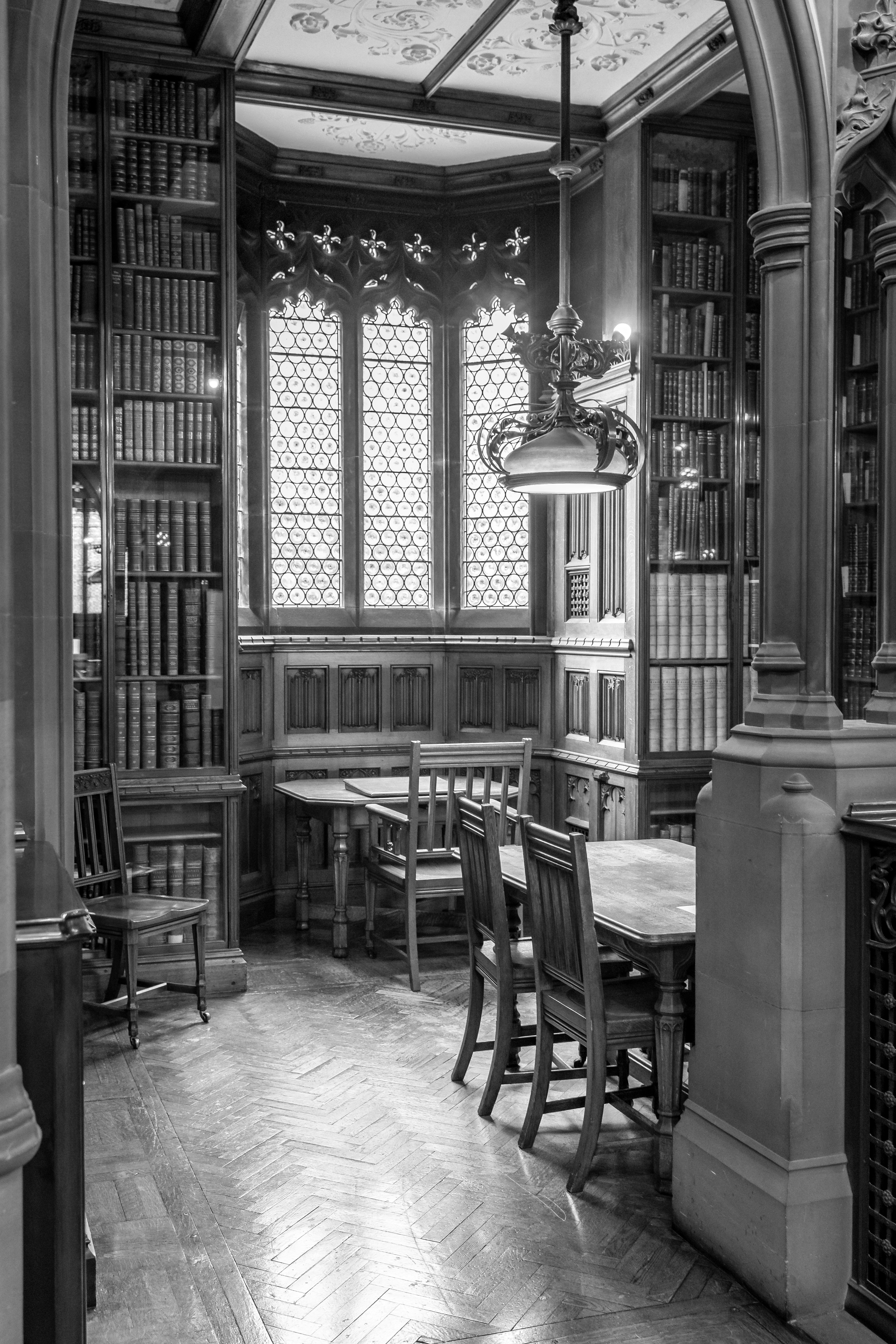 John Rylands Library Wikidata has entry Q1236267 with data related to this item.